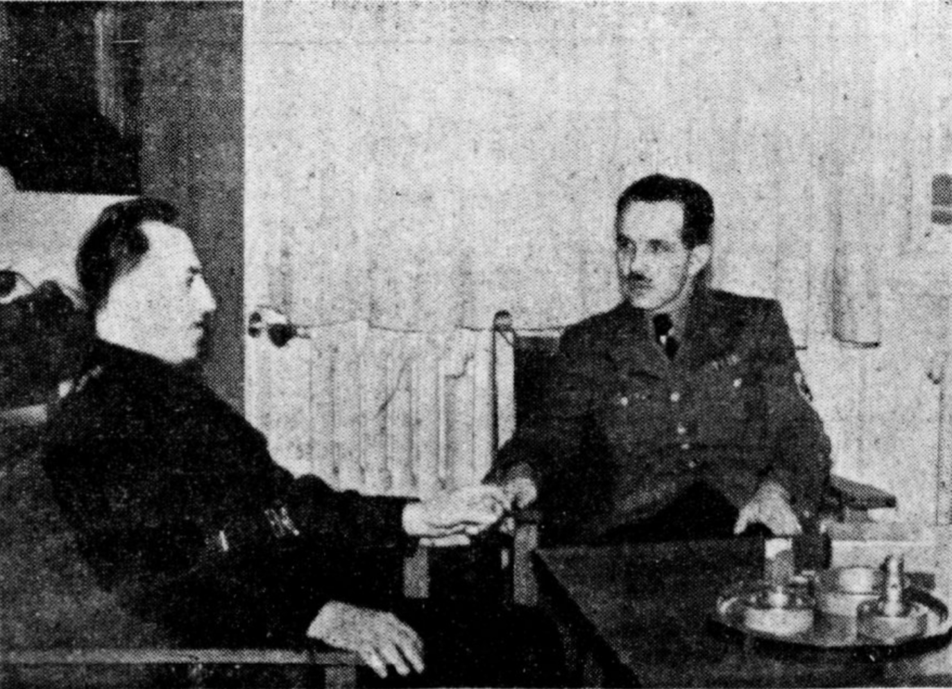 Karol Murgaš, leader of the Slovak State Ministry of Propaganda, meets with German Party leader Franz Karmasin